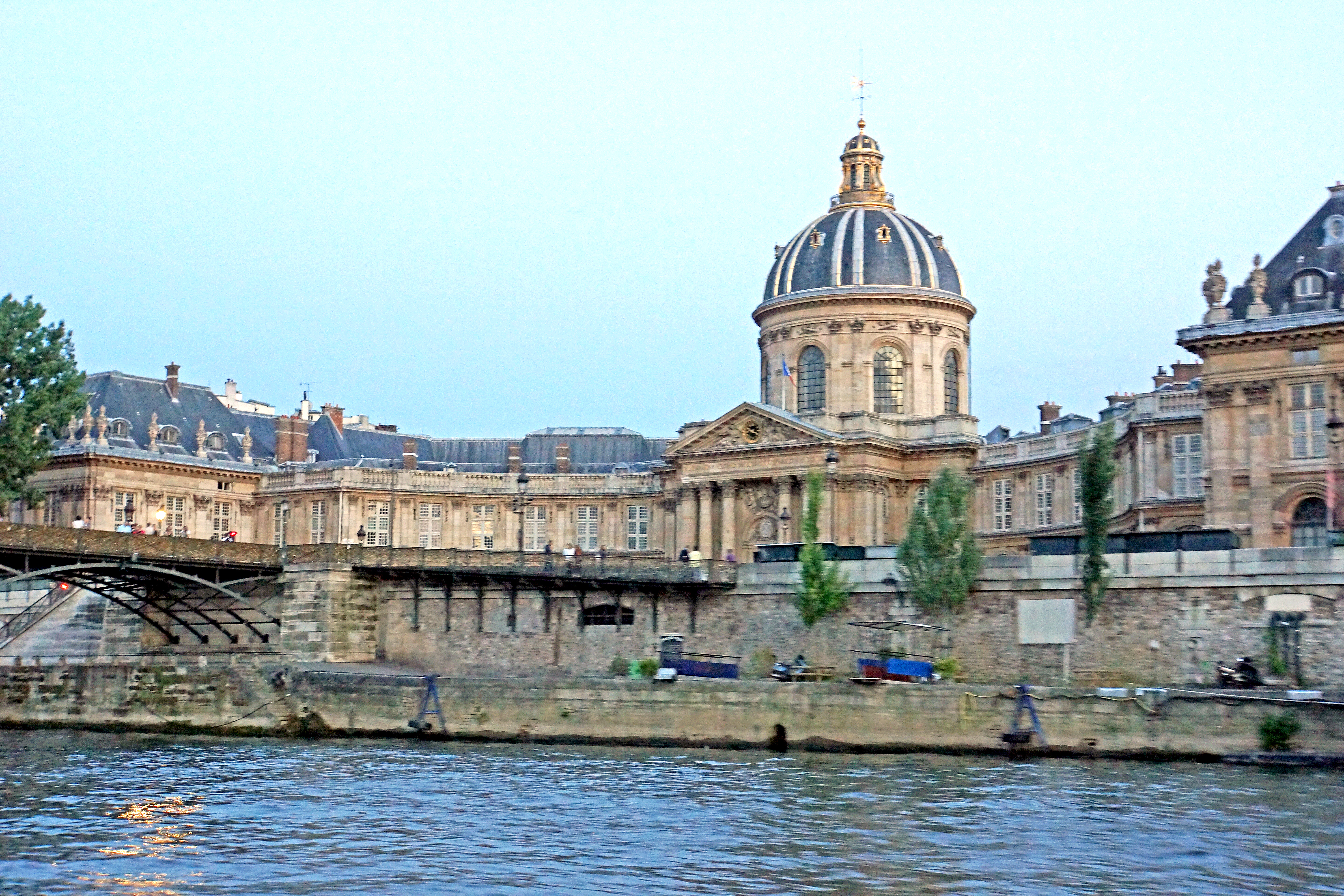 PLEASE, NO invitations or self promotions, THEY WILL BE DELETED. My photos are FREE to use, just give me credit and it would be nice if you let me know, thanks. The French Institute is a French learned society, grouping five academies, the most famous of which is the Académie française. The Institute manages approximately 1,000 foundations, as well as museums and châteaux open for visit. It also awards prizes and subsidies, which amounted to a total of €5,028,190.55 for 2002. Most of these prizes are awarded by the Institute on the recommendation of the academies.